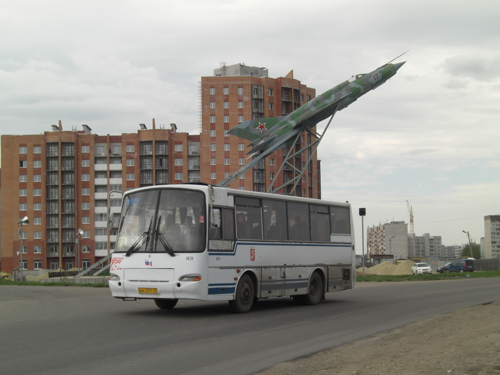 Bus in Gatchina (Leningrad region, Russia).